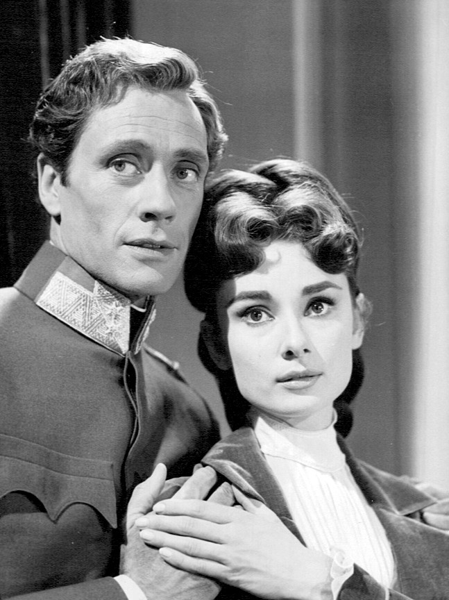 Photo of Audrey Hepburn and Mel Ferrer from the Producers' Showcase presentation of Mayerling.